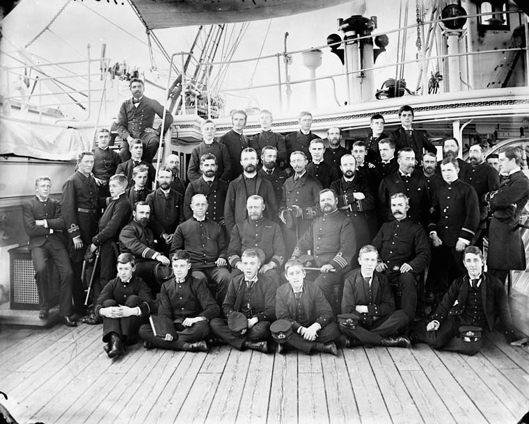 Officers of H.M.S. "Bellerophon", flagship of the North America and West Indies Squadron, at Halifax, Nova Scotia, Canada.